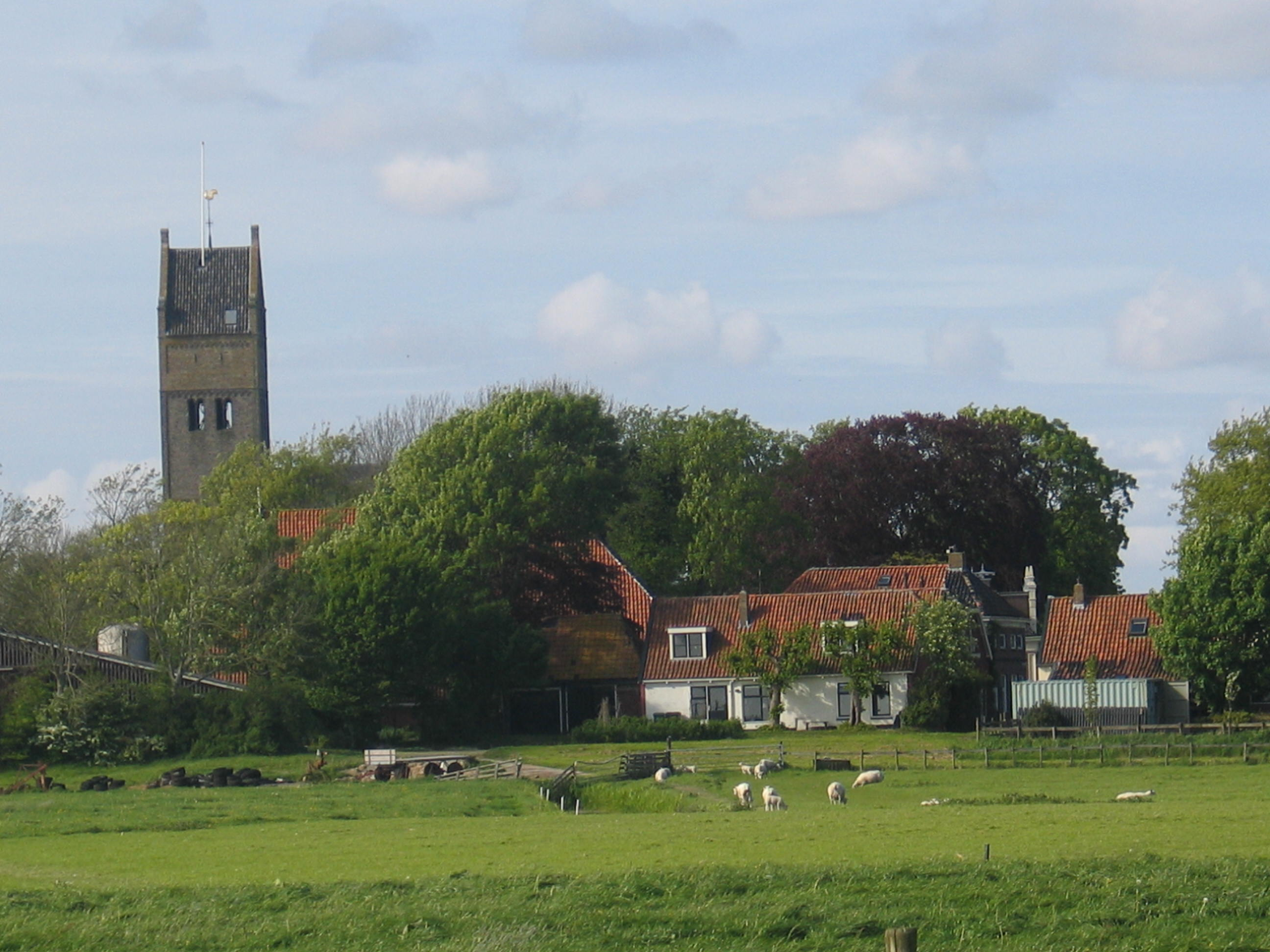 View on Jorwerd